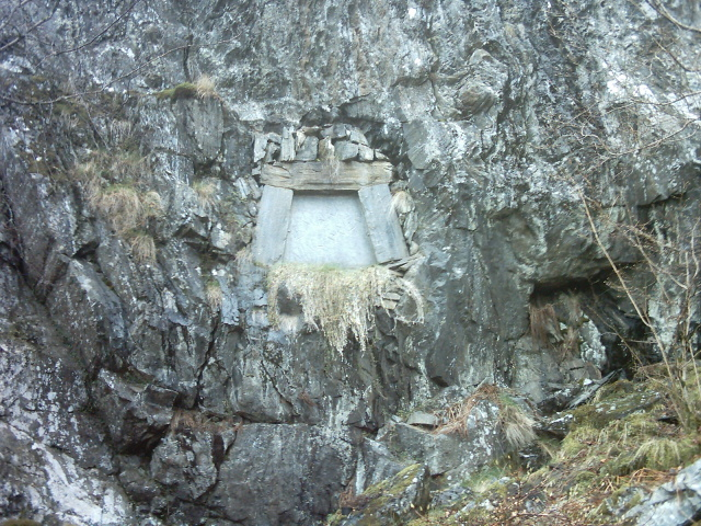 Tomb of Edvard Grieg near Troldhaugen in Norway.Grieg's Tomb